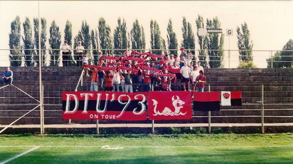 The D-town ultras is anywhere